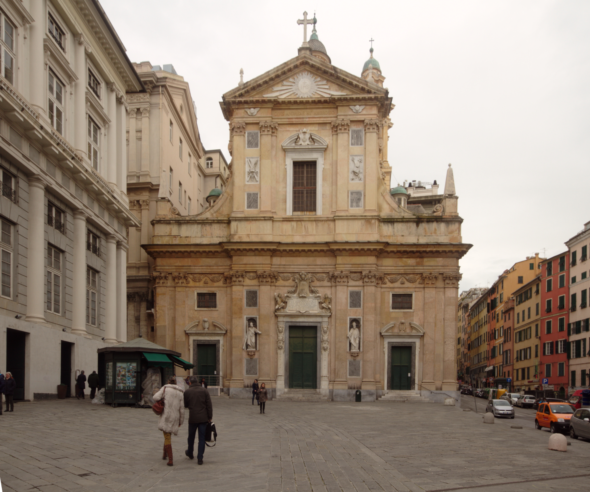 Church of Gesù e dei Santi Ambrogio e Andrea - Genoa 2014